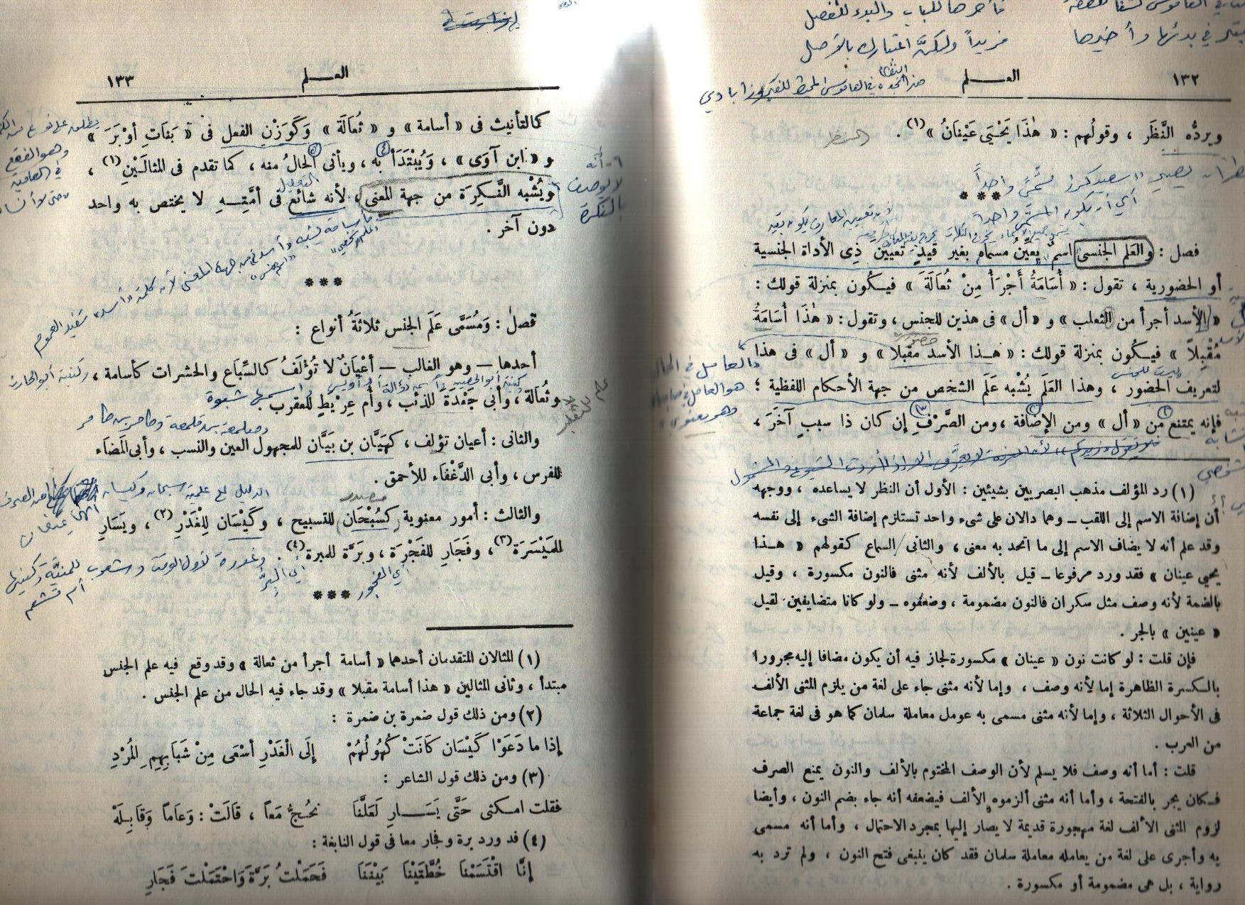 تعليقه على شرح ألفية ابن مالك